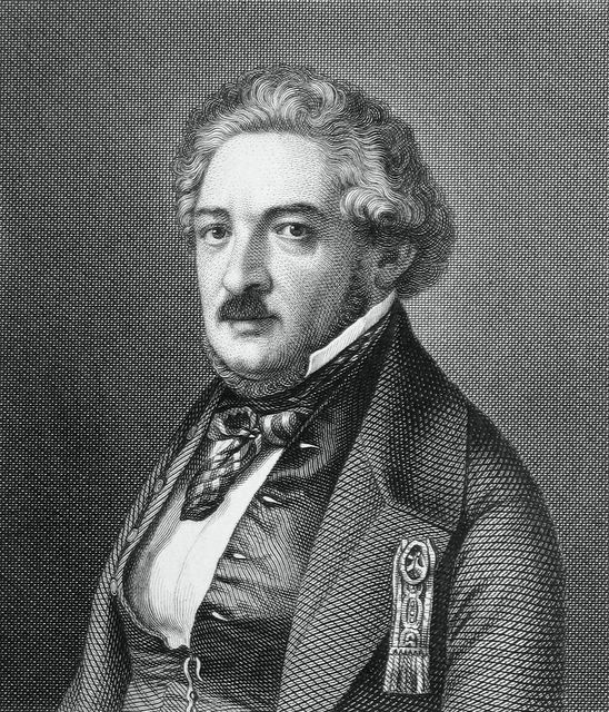 Armand Marrast (1801-1852), french journalist, writer and politician